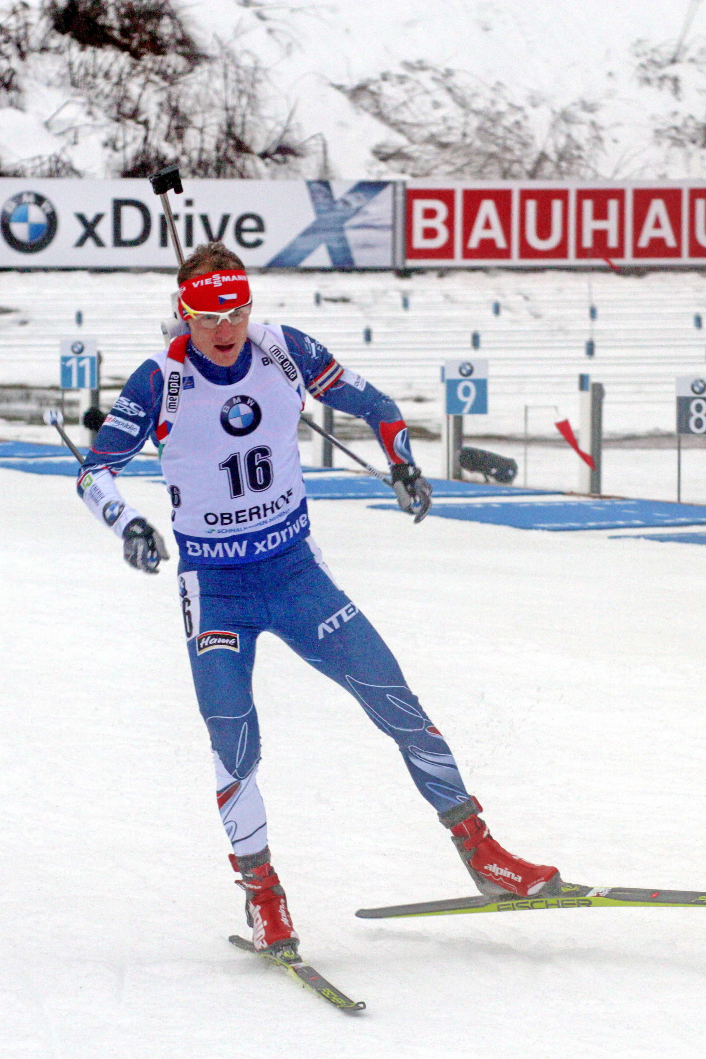 2018 Oberhof Biathlon World Cup - Sprint Men